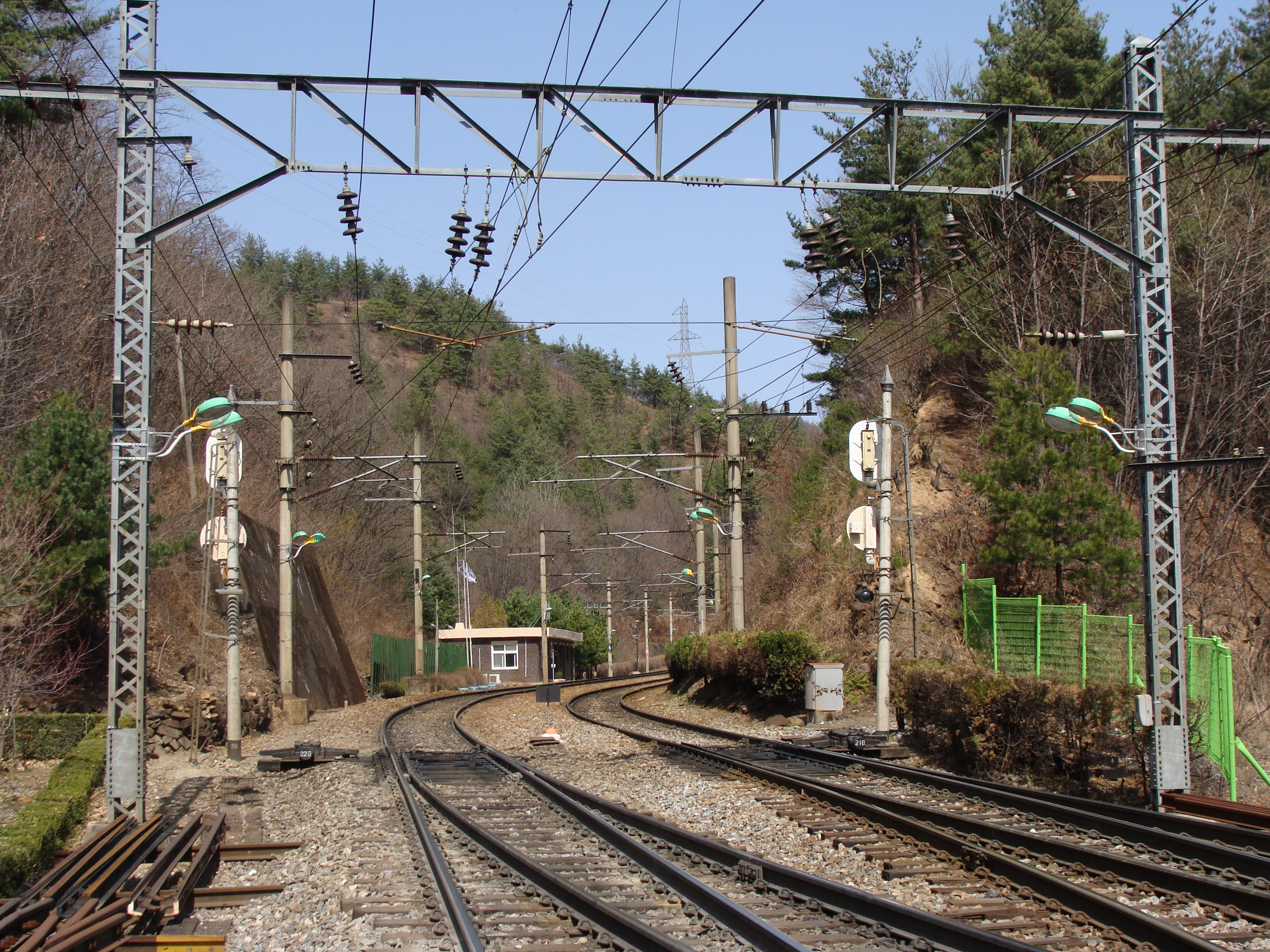 Start of zigzag railway at Heungjeon Station, Samcheok, South Korea